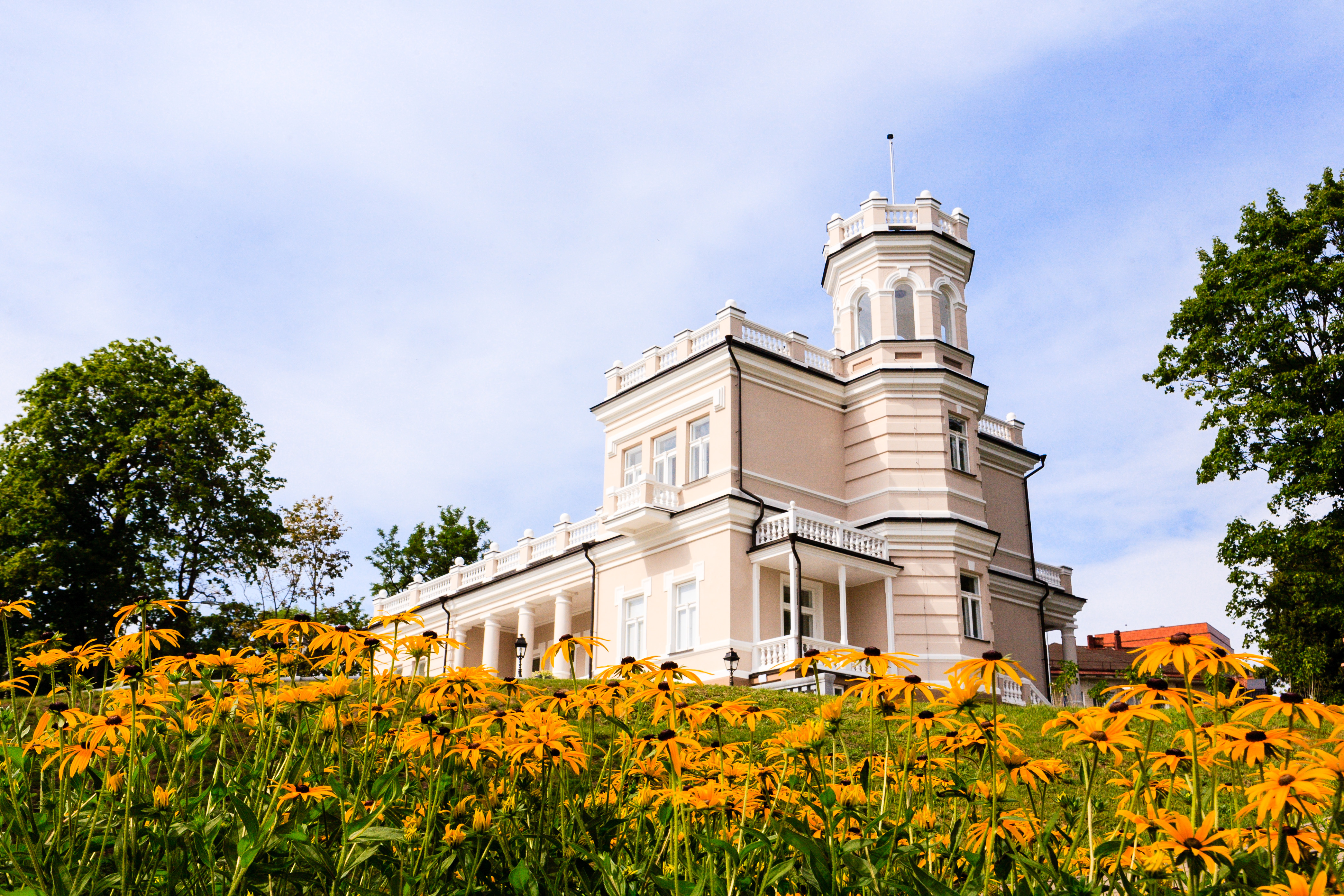 Vila linksma in Druskininkai